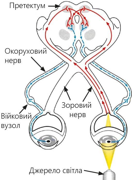 Pathway of pupil reflex Translation + modifications of File:Pupil reflex pathway.png